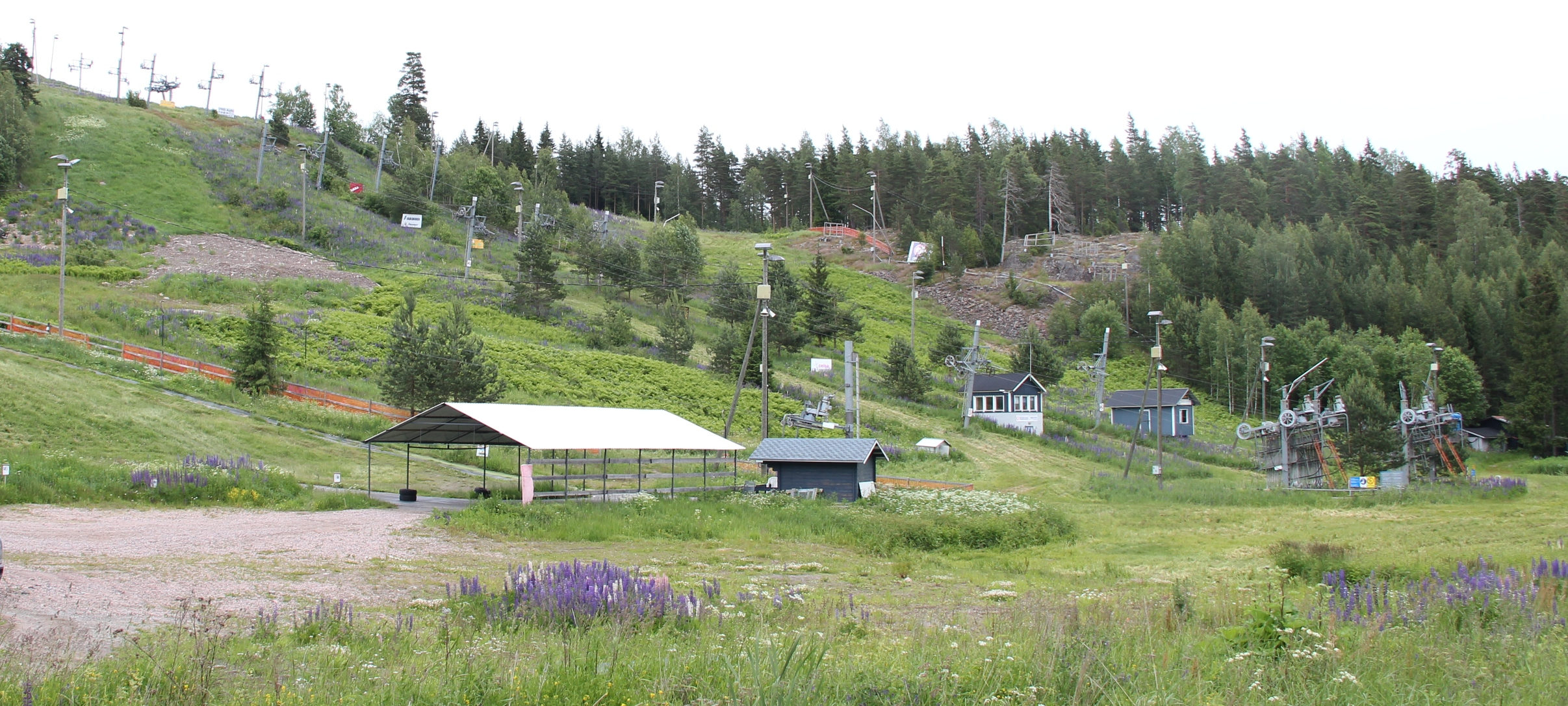 Påminne ski resort, in Åminnefors, Raseborg, Finland in summer